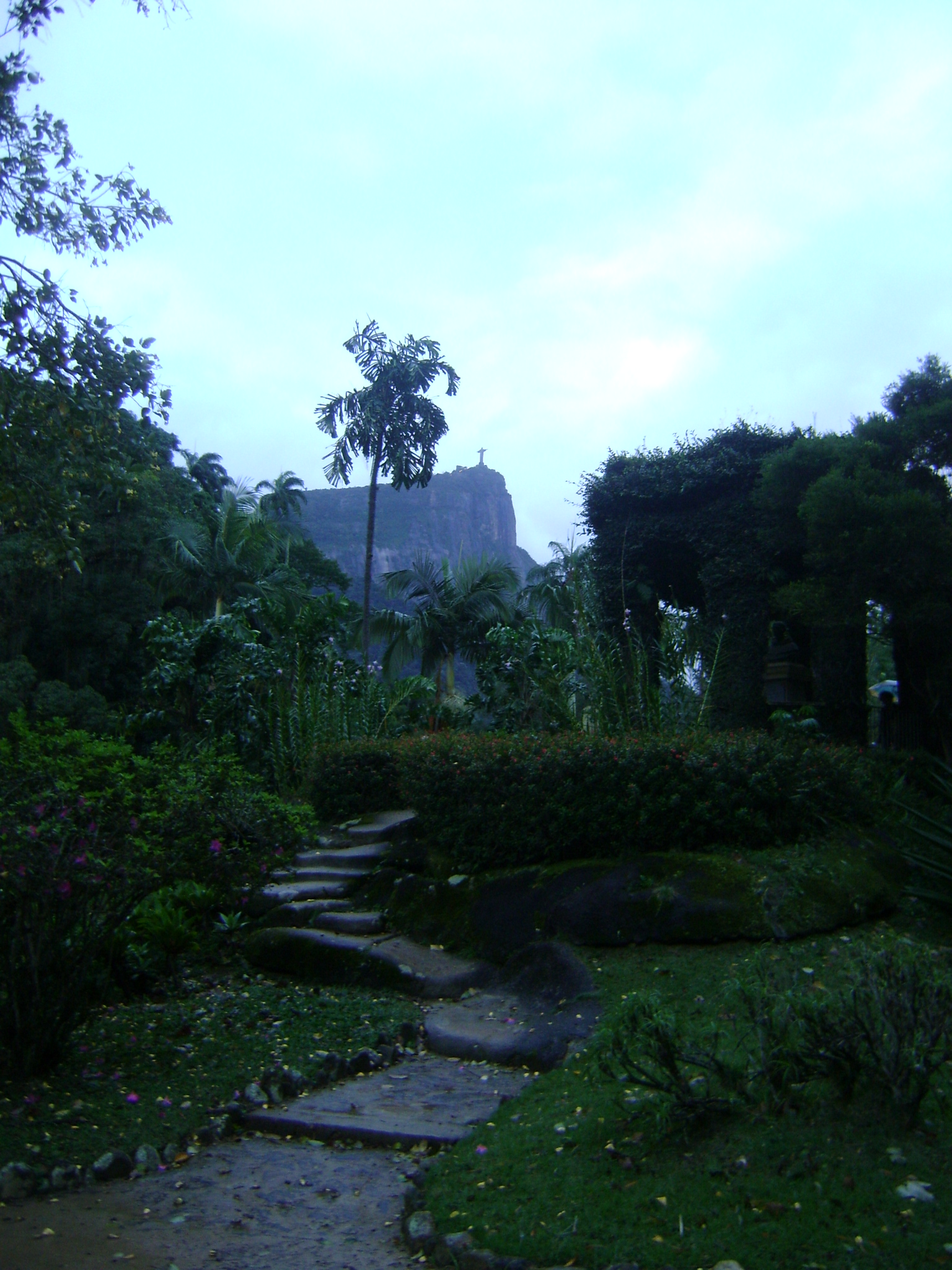 Christ the Redeemer Statue viewed from the Rio de Janeiro Botanical Gardens.